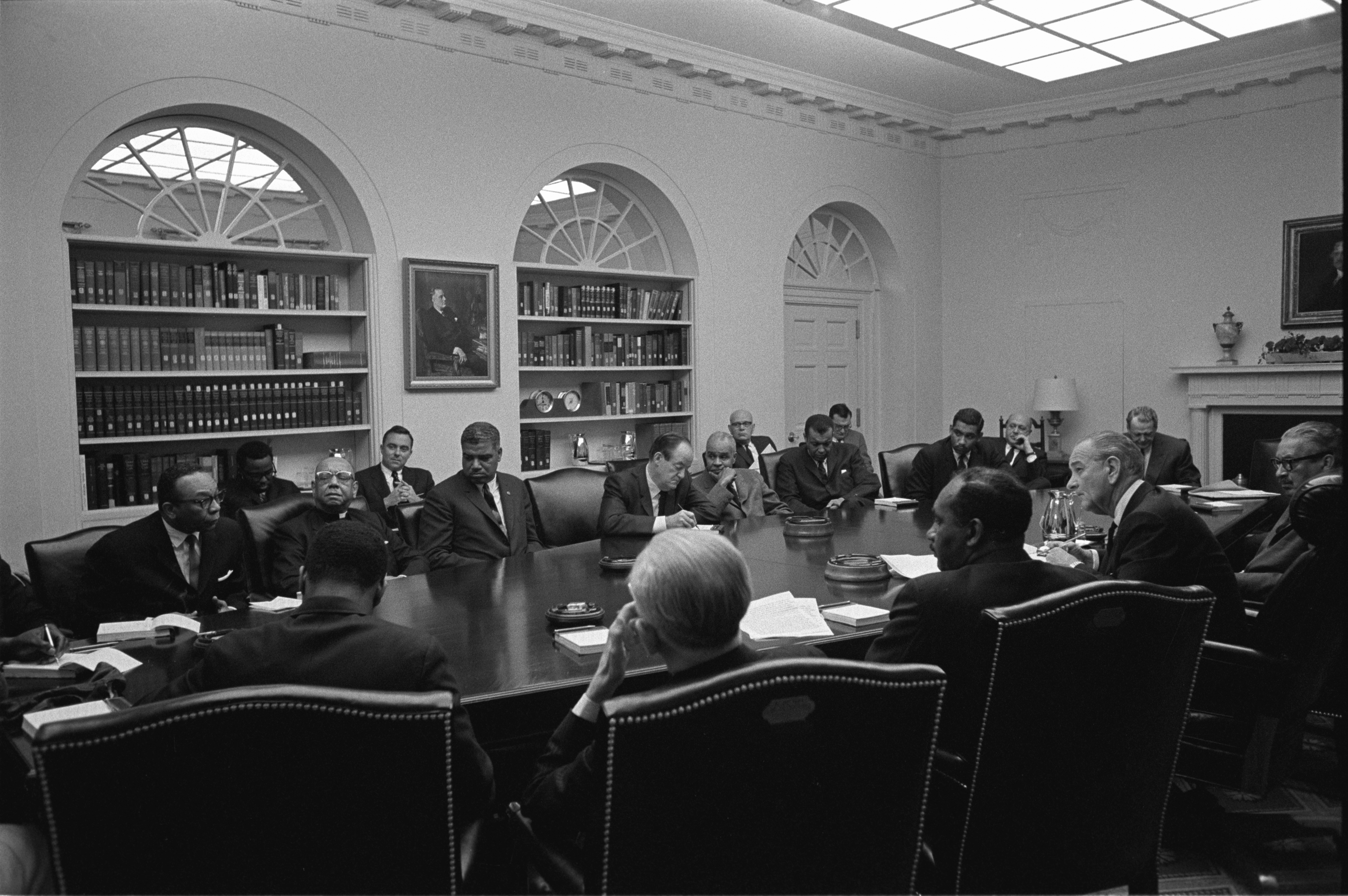 President Johnson meeting with Civil Rights Leaders following the assassination of Martin Luther King in 1968